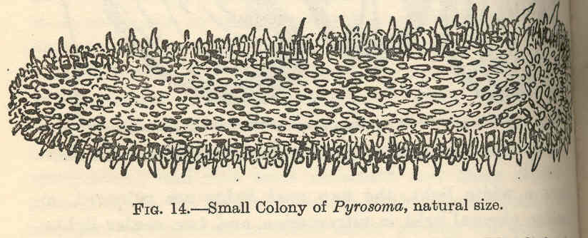 Small Colony of Pyrosoma Subject: Pyrosoma Tag: Fish